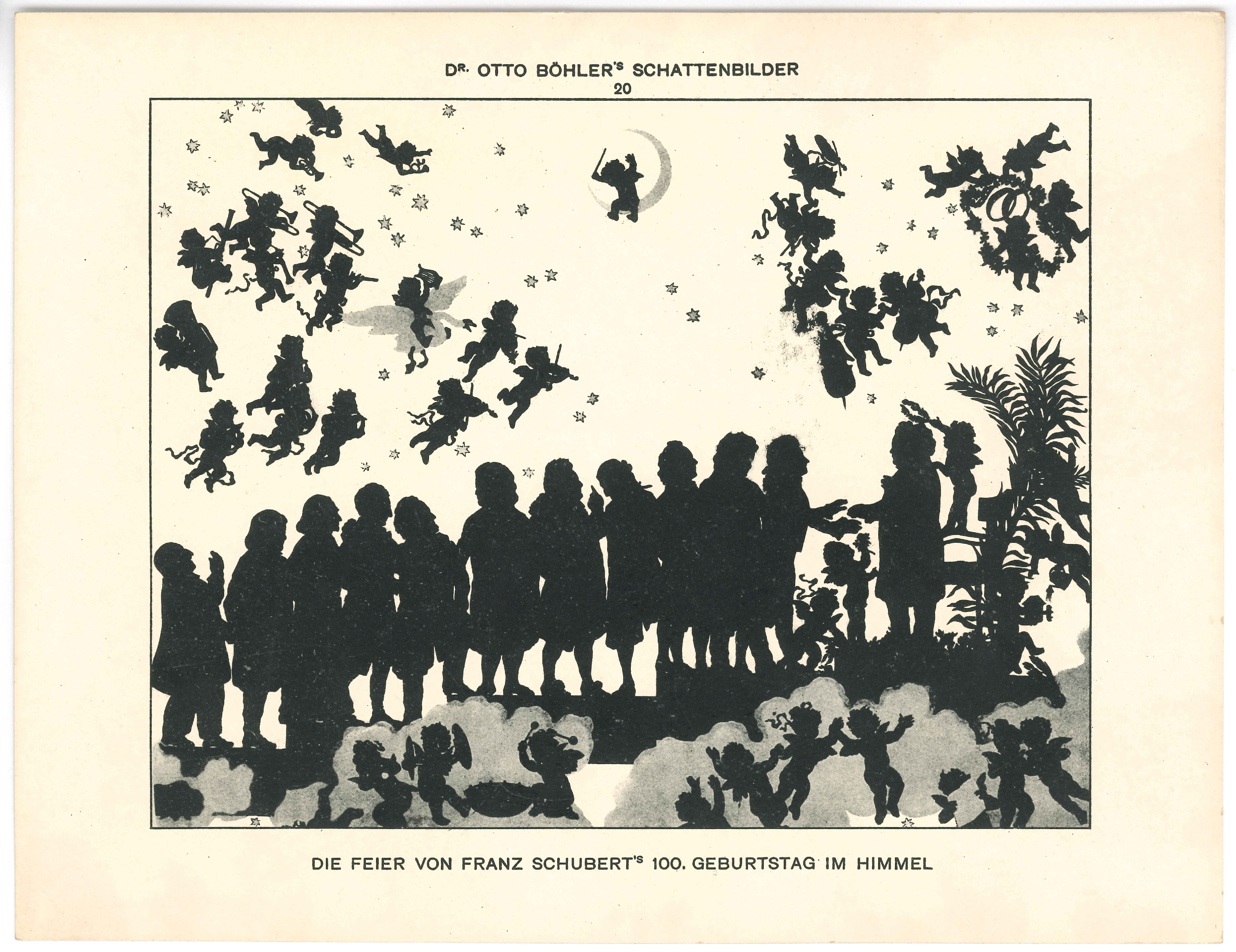 The celebration of Franz Schubert's 100th Birthday in heaven, silhouette 20 x 26 cm; photo of Böhler´s silhouette printed on thick card